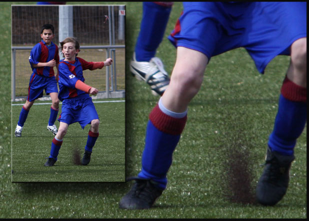 Granulated rubber made from recycled car tires